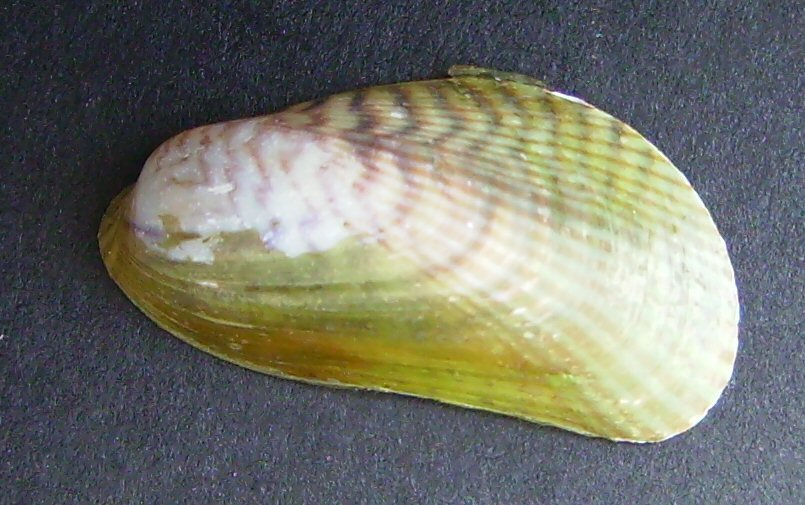 Musculista senhousia (Asian mussel) from Auckland, New Zealand. This work has been released into the public domain by its author, Graham Bould. This applies worldwide.In some countries this may not be legally possible; if so:Graham Bould grants anyone the right to use this work for any purpose, without any conditions, unless such conditions are required by law.